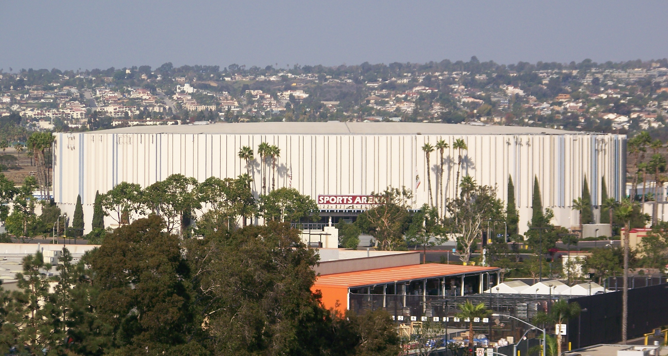 The San Diego Sports Arena in San Diego, California.